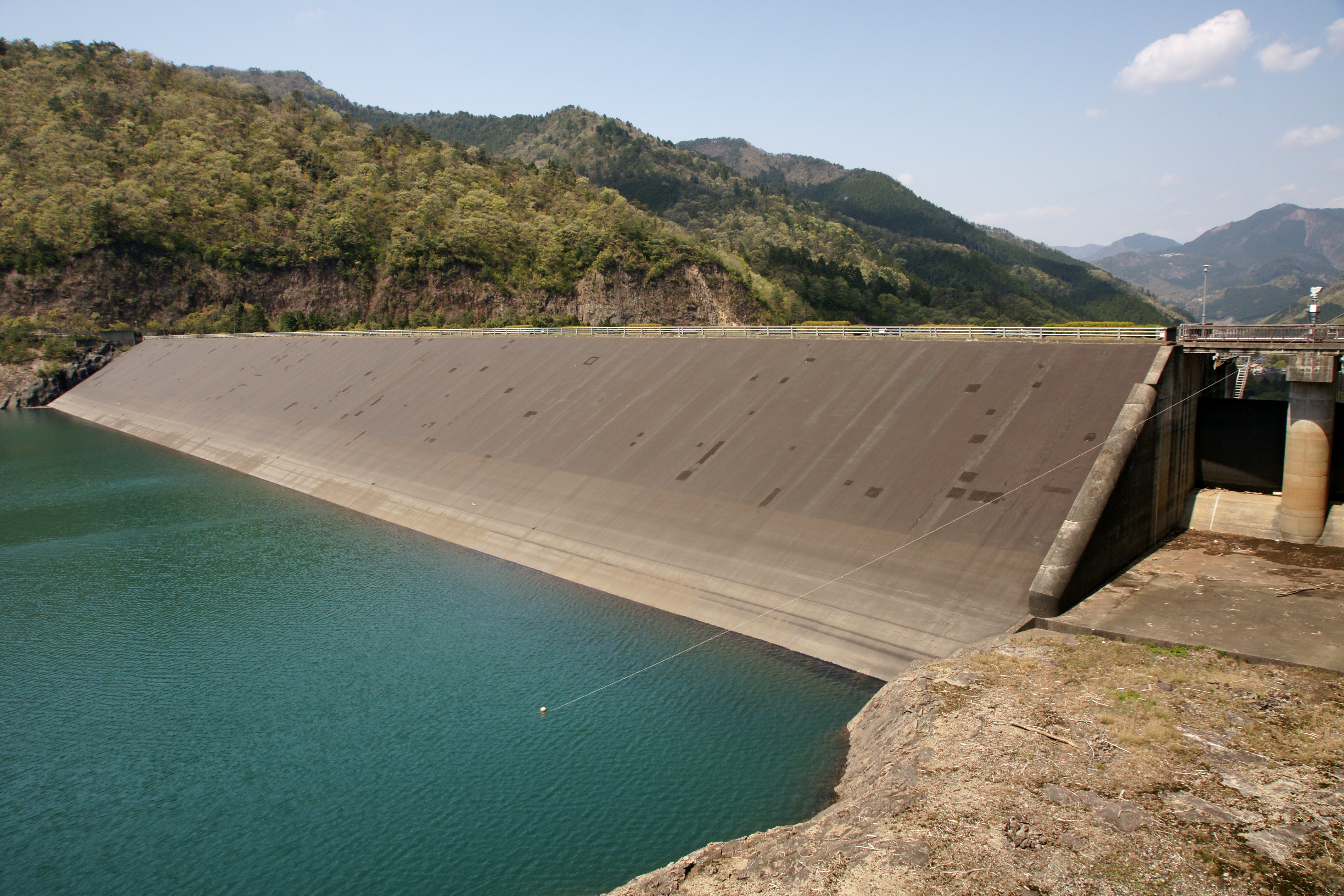 Tataragi Dam in Asago, Hyogo prefecture, Japan.